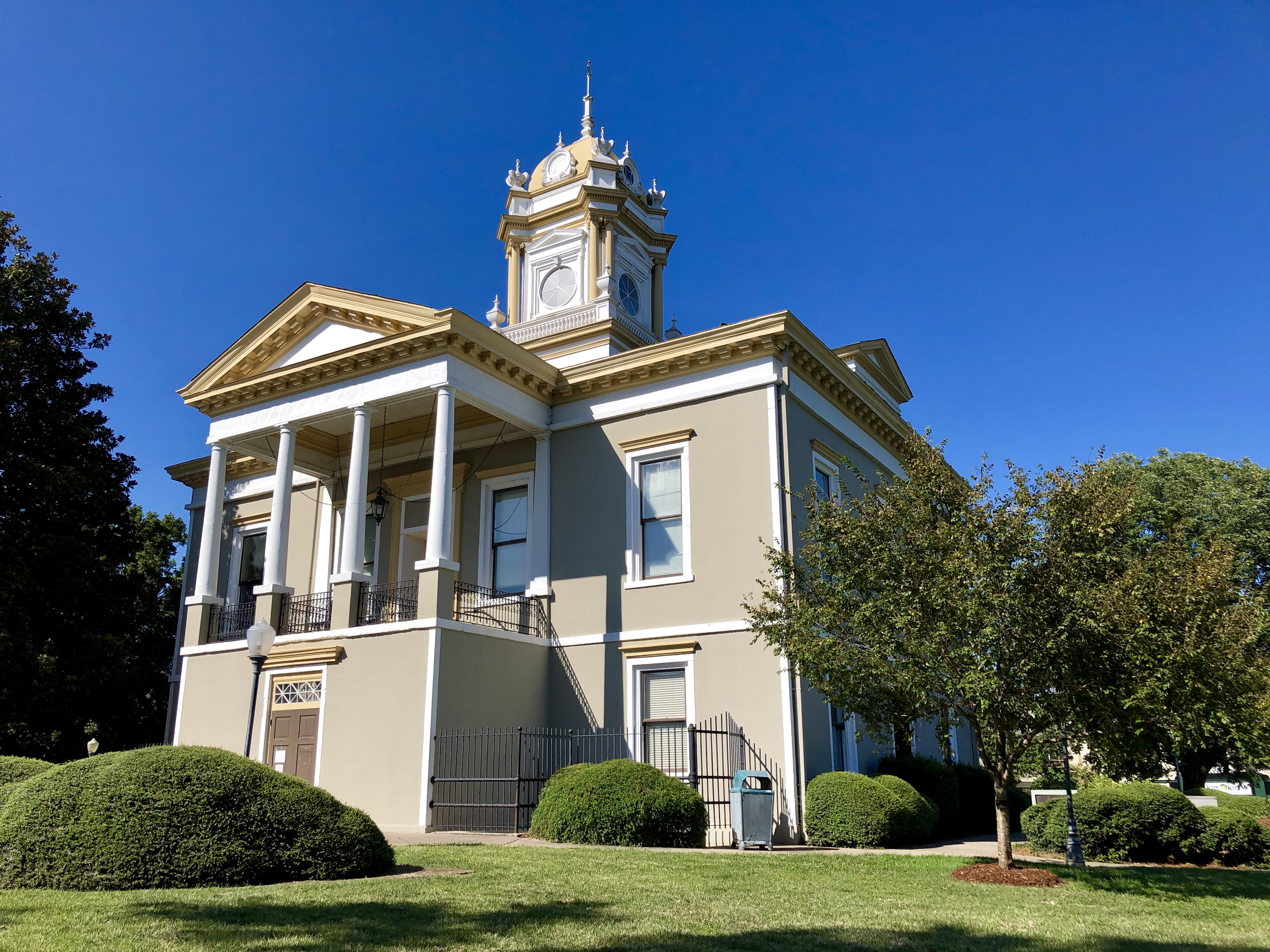 This is the old Burke County Courthouse, constructed between 1830 and 1837 on the public square in downtown Morganton, North Carolina. The building was renovated in 1885 and 1903, and was listed on the National Register of Historic Places in 1970.